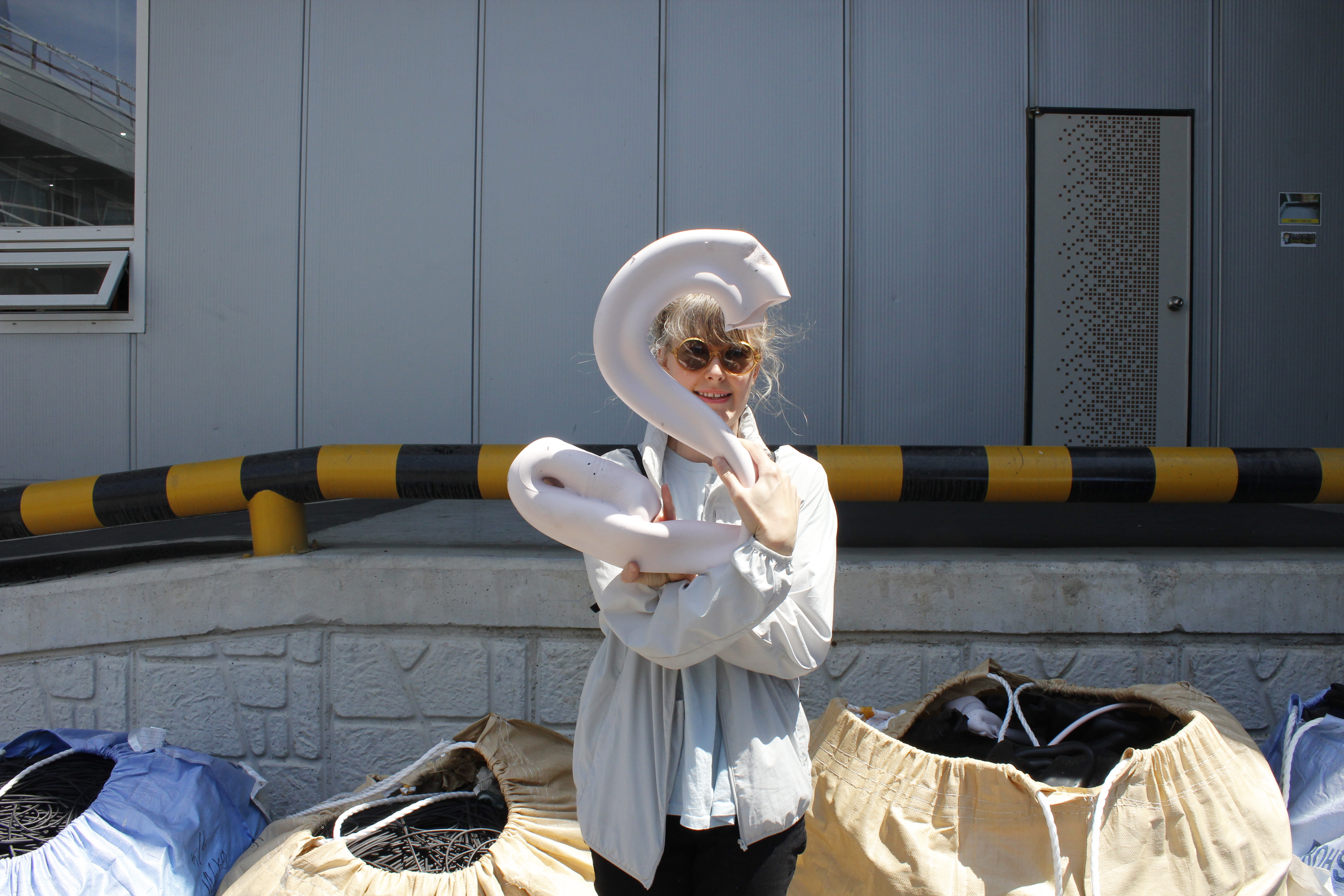 Artist Nina Canell – image donated to Finnish National Gallery